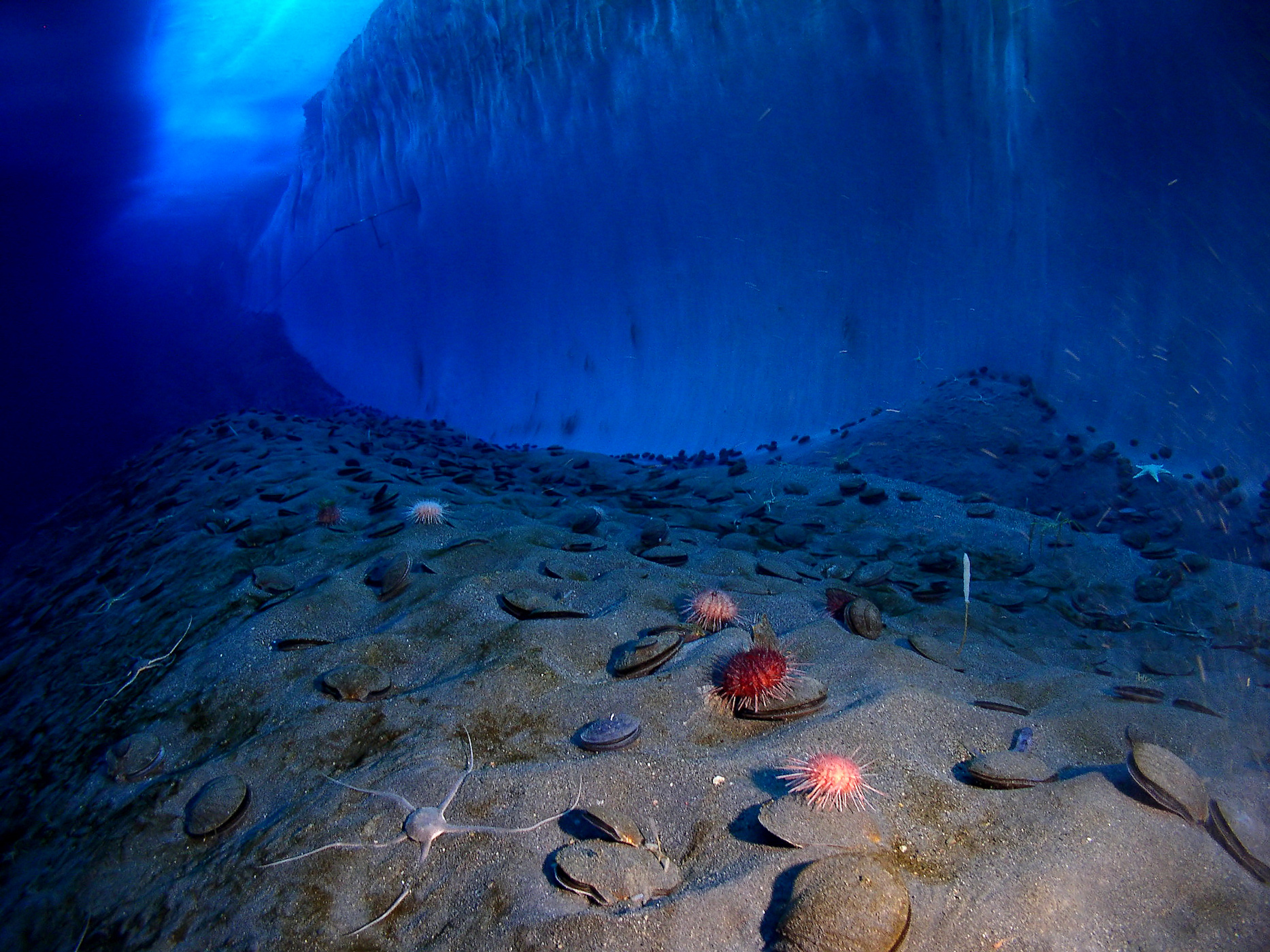 This image of an ice wall and the ocean floor at Explorer's Cover, New Harbor, McMurdo Sound is adjacent to remote-controlled photographic equipment. An underwater camera is connected by cable to onshore facilities, which upload images to the Internet via radio signals. main visible species : the antarctic scallop (Adamussium colbecki) the common antarctic sea urchin (Sterechinus neumayeri) a stalk-like bush sponge (Homaxinella balfourensis) a brittlestar (Ophionotus victoriae) seaspiders (Colossendeis sp.)